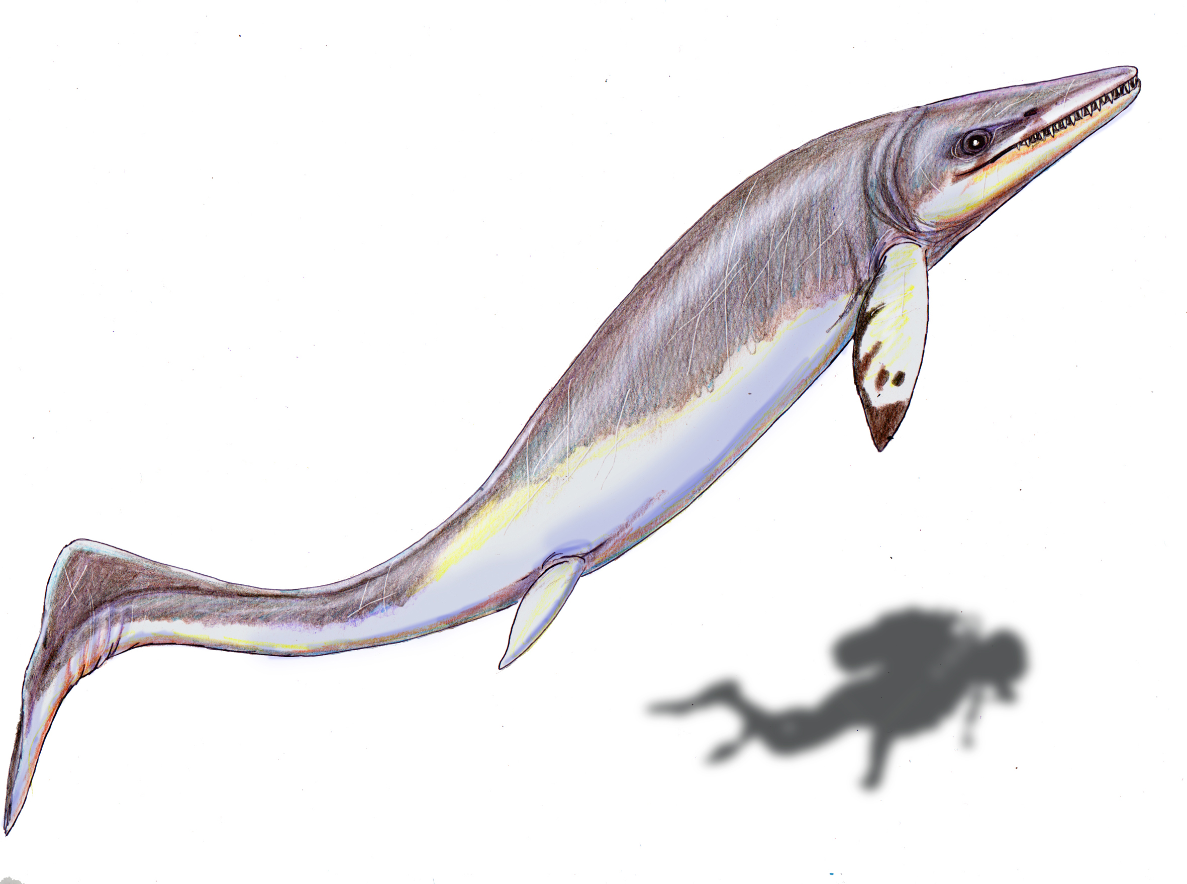 Thalattoarchon saurophagis, giant macropredatory ichthyosaur from the Middle Triassic of the western United States/